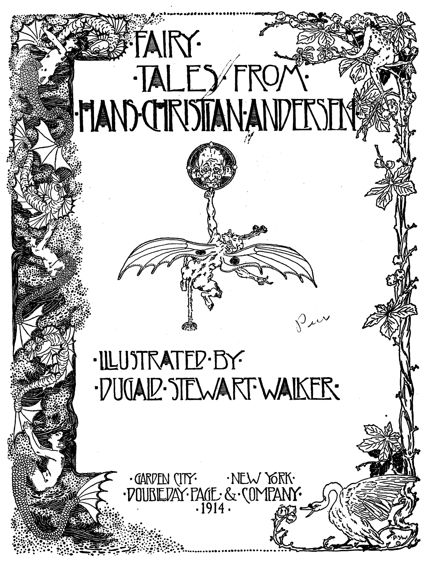 Frontispiece from "Fairy Tales" by Hans Christian Andersen (Doubleday, Page & Co, New York 1914)